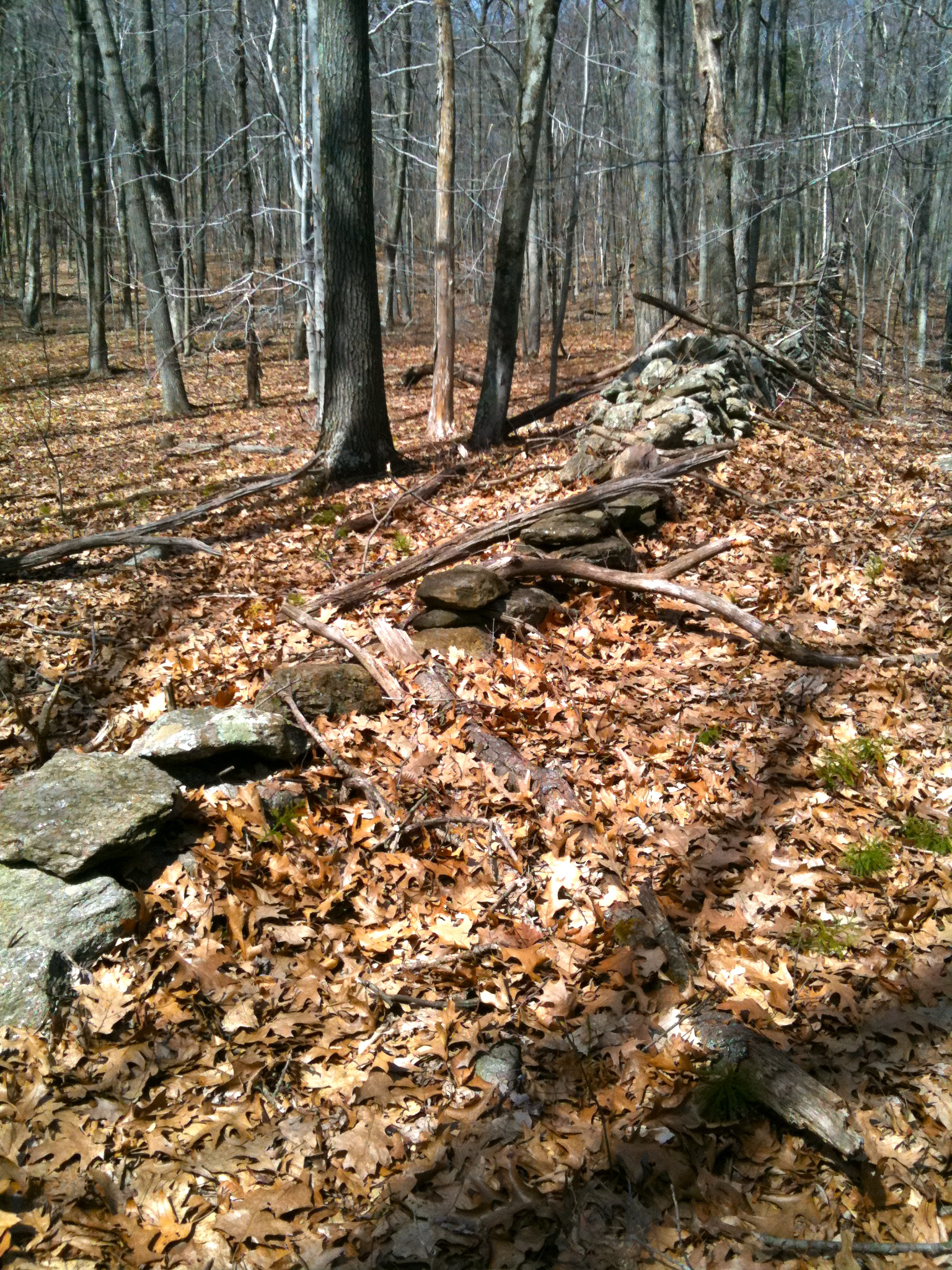 Whittemore side trail of Naugatuck Blue-Blazed hiking trail. Blazed Blue-White. Bethany, CT in Naugatuck State Forest near CT Route 42.